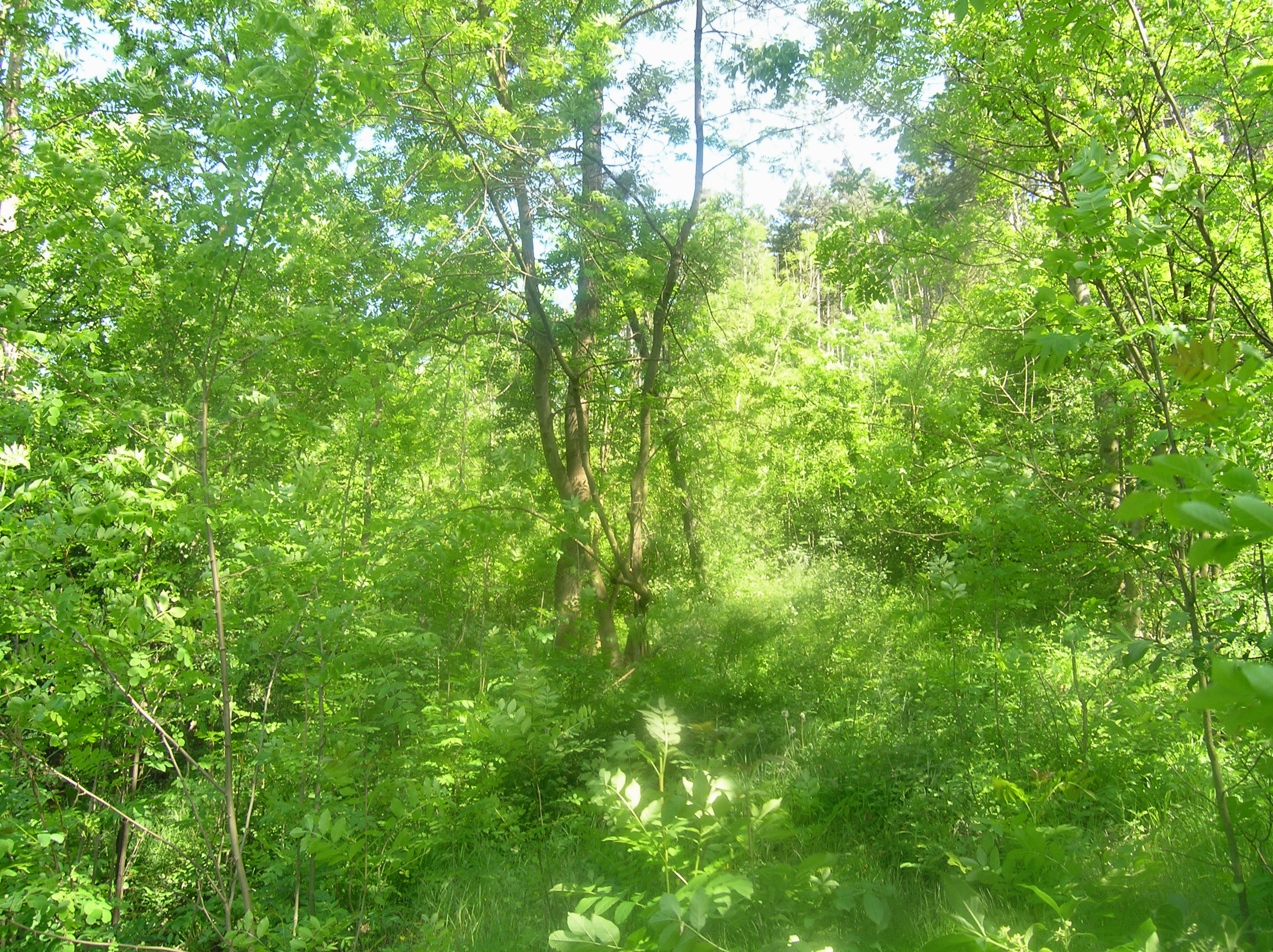 Květnice Natural Reserve by Tišnov, Czech Republic